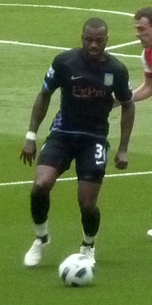 Darren Bent playing for Aston Villa against Arsenal at the Emirates Stadium, London on 15 May 2011